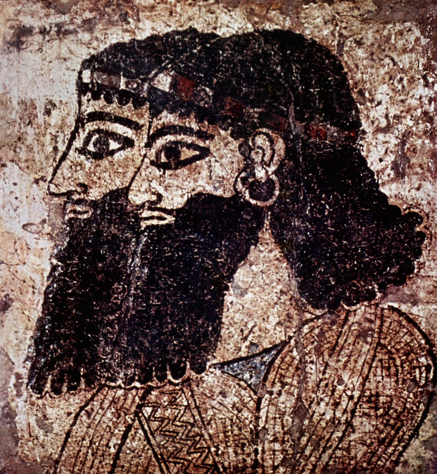 Detail of the wall paintings from the governor's palace at Til Barsip (Tell Ahmar, Syria). The king giving audience. Date around the time of Tiglath-pileser III (744-727 BC). From: E. Strommenger, The art of Mesopotamia, pl. XXXVIII. Original (wall painting, H. 40.7 cm.) in Aleppo Museum